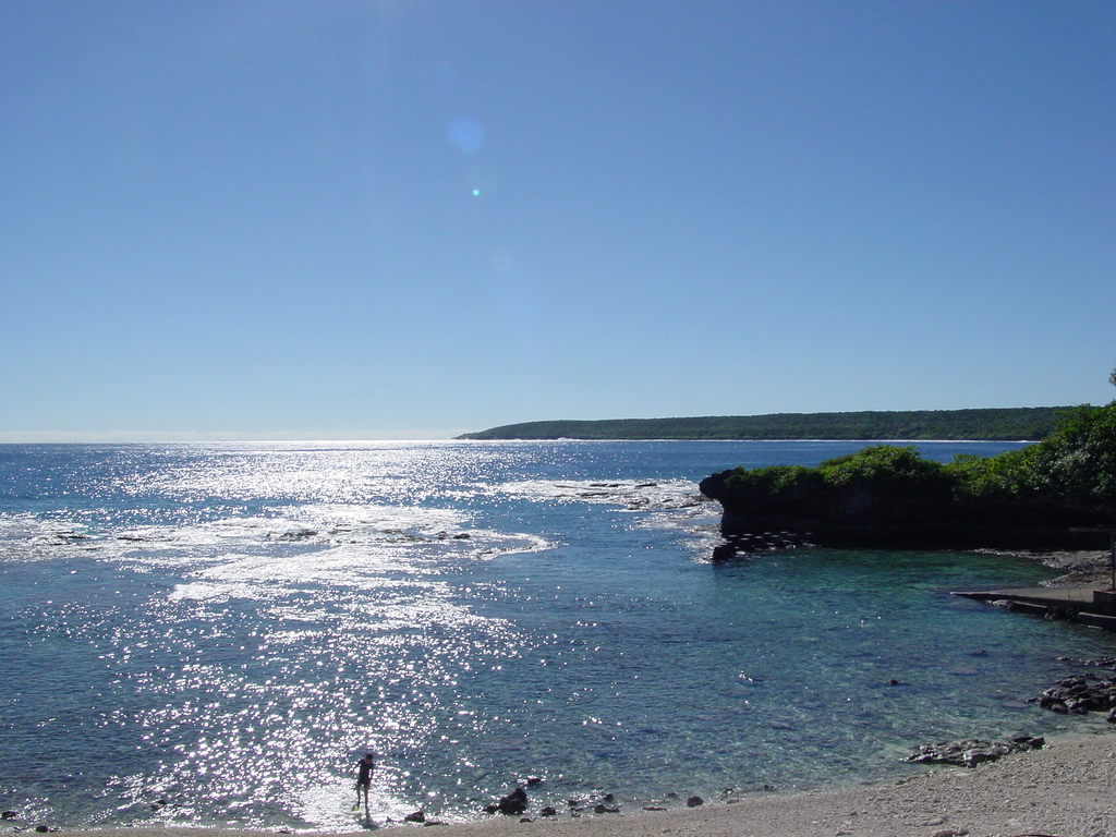 Avatele, Niue. This is where Niue Dive launches its boats for diving